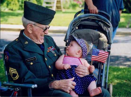 Edward Whitehead holds great-granddaughter, Elyse, during a 2006 Memorial Day event. ""